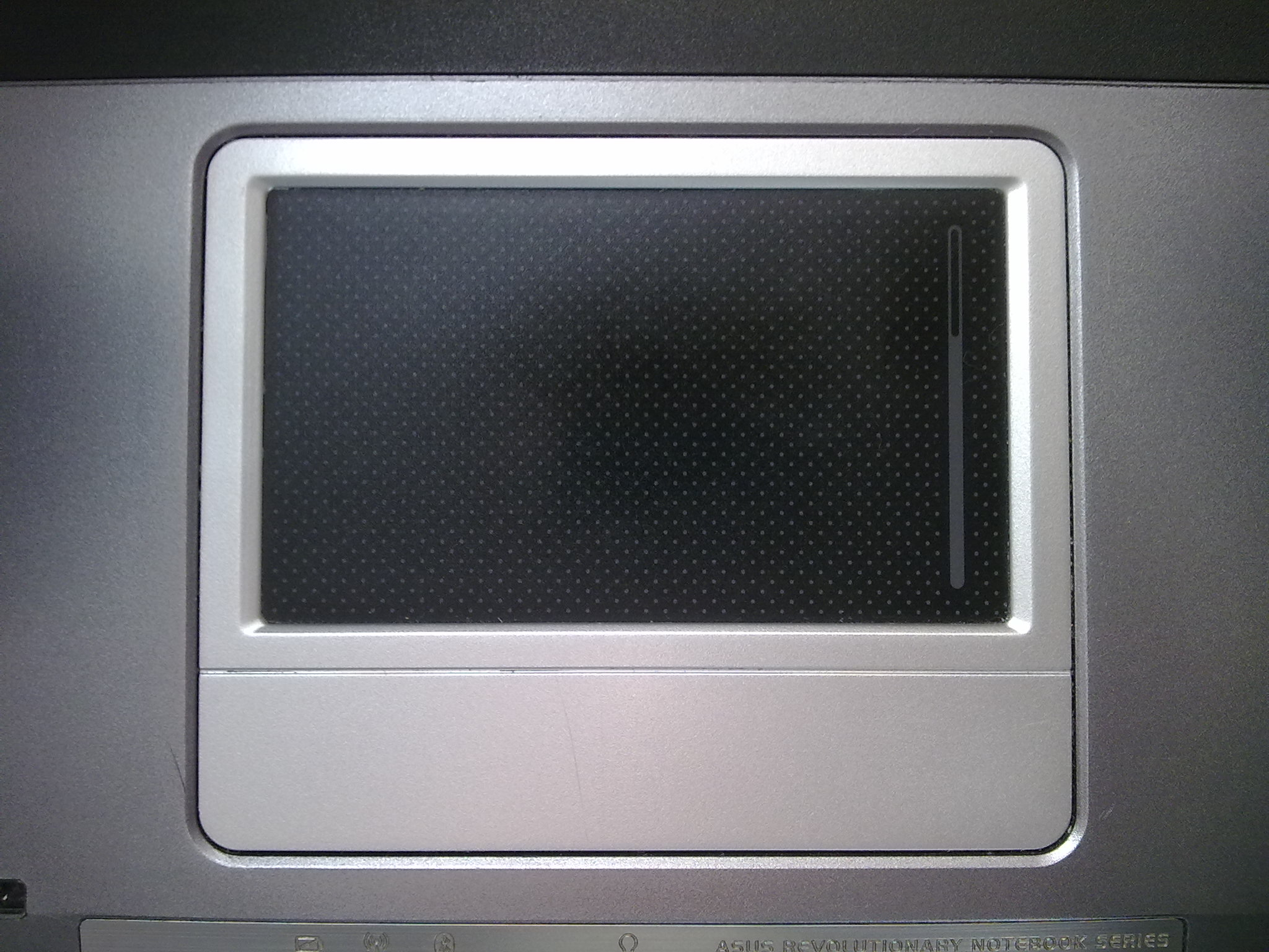 Asus F3JA-AP022H's touchpad